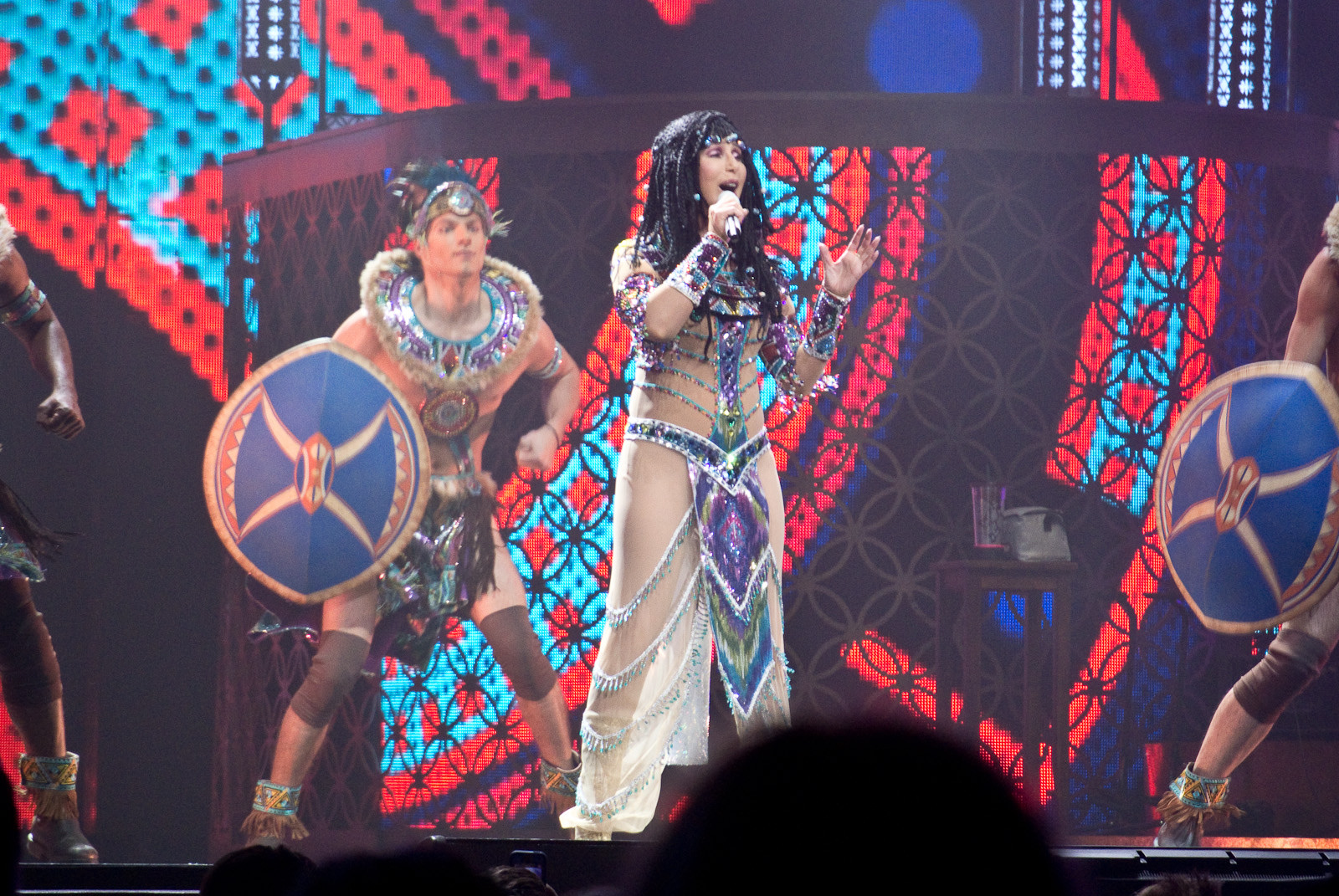 Cher performing live in concert, 2014.